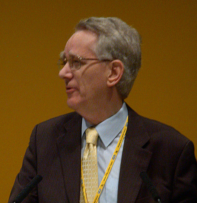 Andrew Stunell MP addressing a Liberal Democrat conference in the ACC, Liverpool